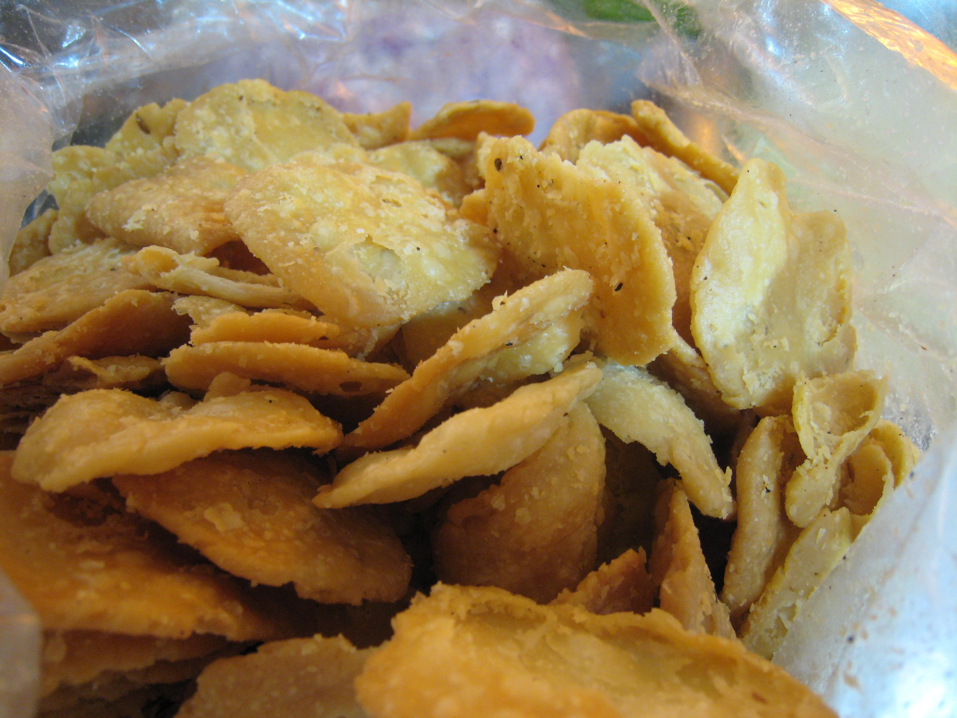 Papri Chaat, Paapri Chaat or Papdi chaat is a north Indian fast food. Chaat, an Indic word which literally means lick, is used to describe a range of snacks and fast food dishes; papri refers to crispy fried dough wafers made from refined white flour and oil.